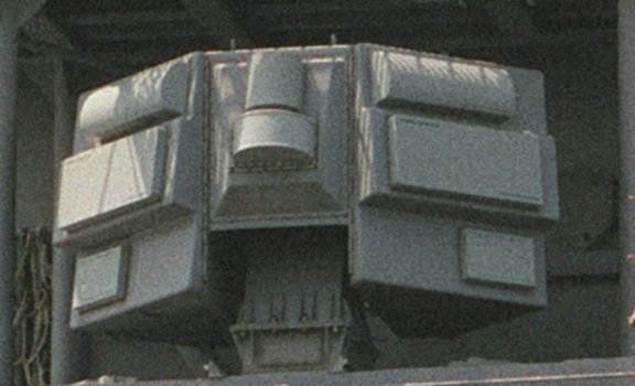 AN/SLQ-32 antenna on the USS NICHOLSON (DD 982).Location: NORFOLK, VIRGINIA (VA) UNITED STATES OF AMERICA (USA)